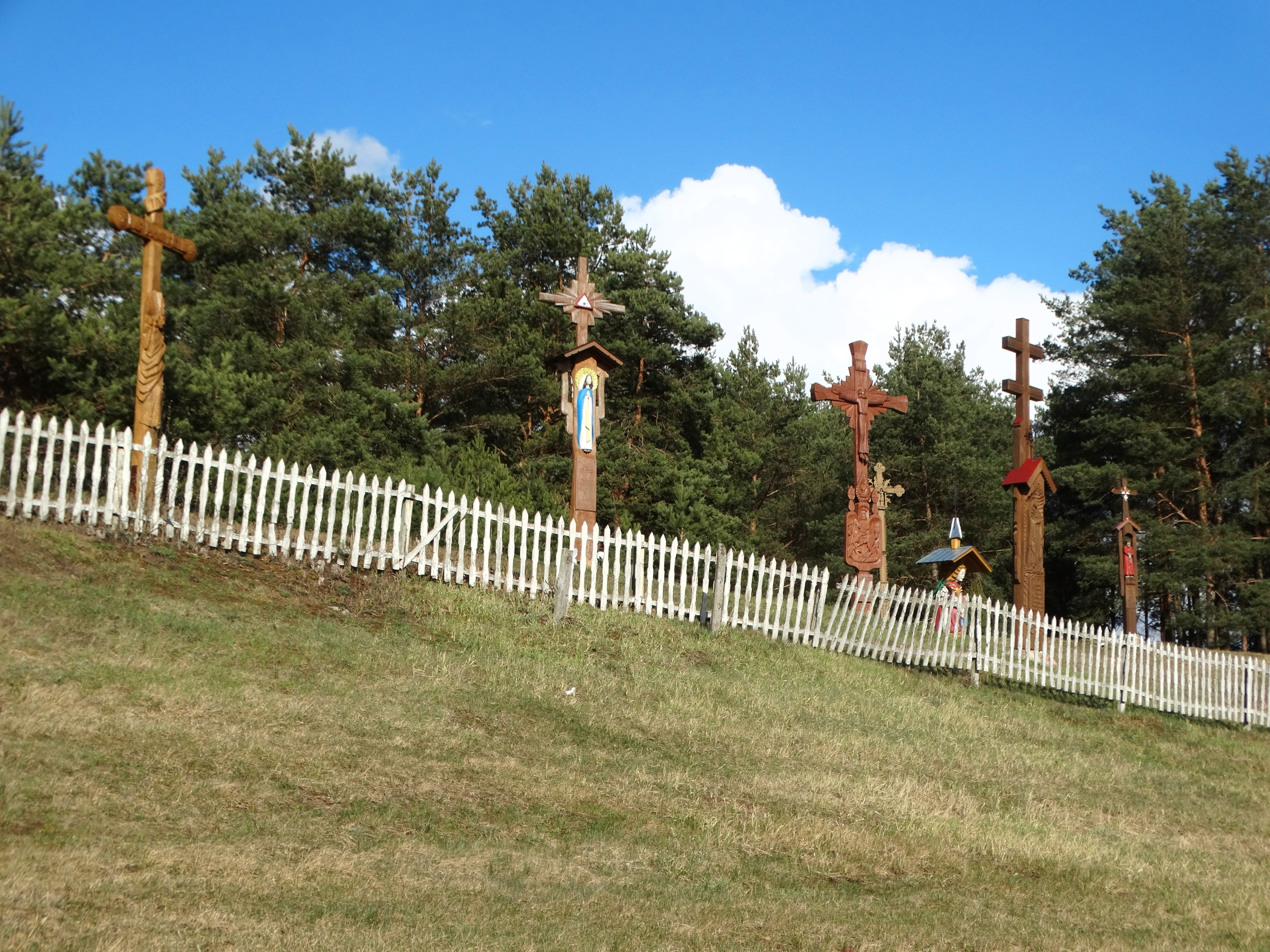 Park of partisans, Kadrėnai, Ukmergė district, Lithuania